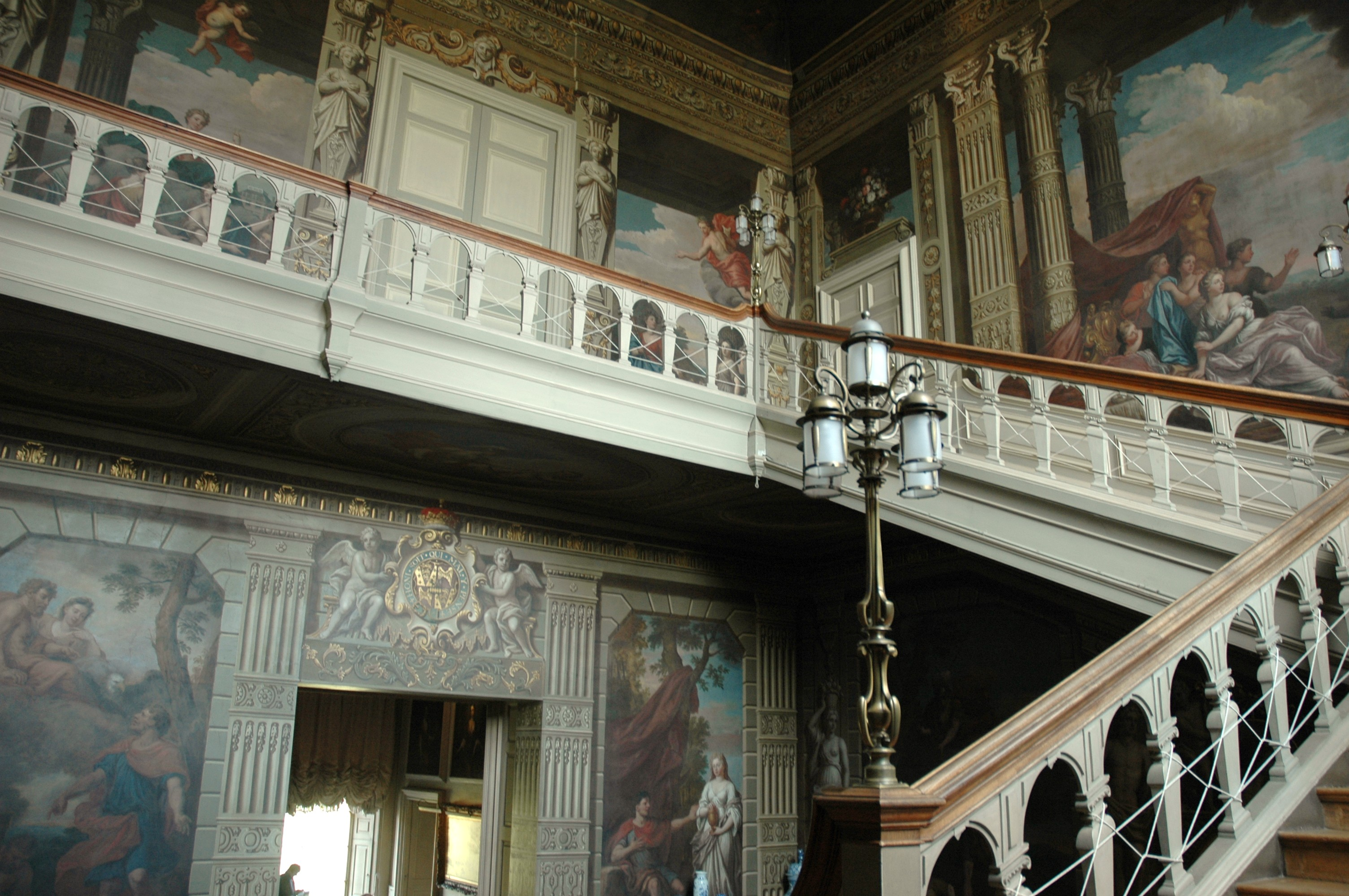 Petworth House - Interior, with coat of arms of the 6th Duke of Somerset, re-builder of Petworth House.